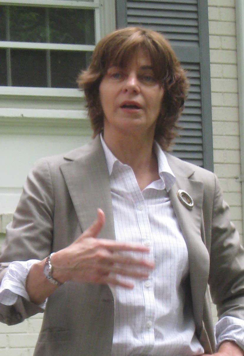 Washington, D.C., Ward 3 Council member Mary Cheh addresses residents about a proposed subdivision.